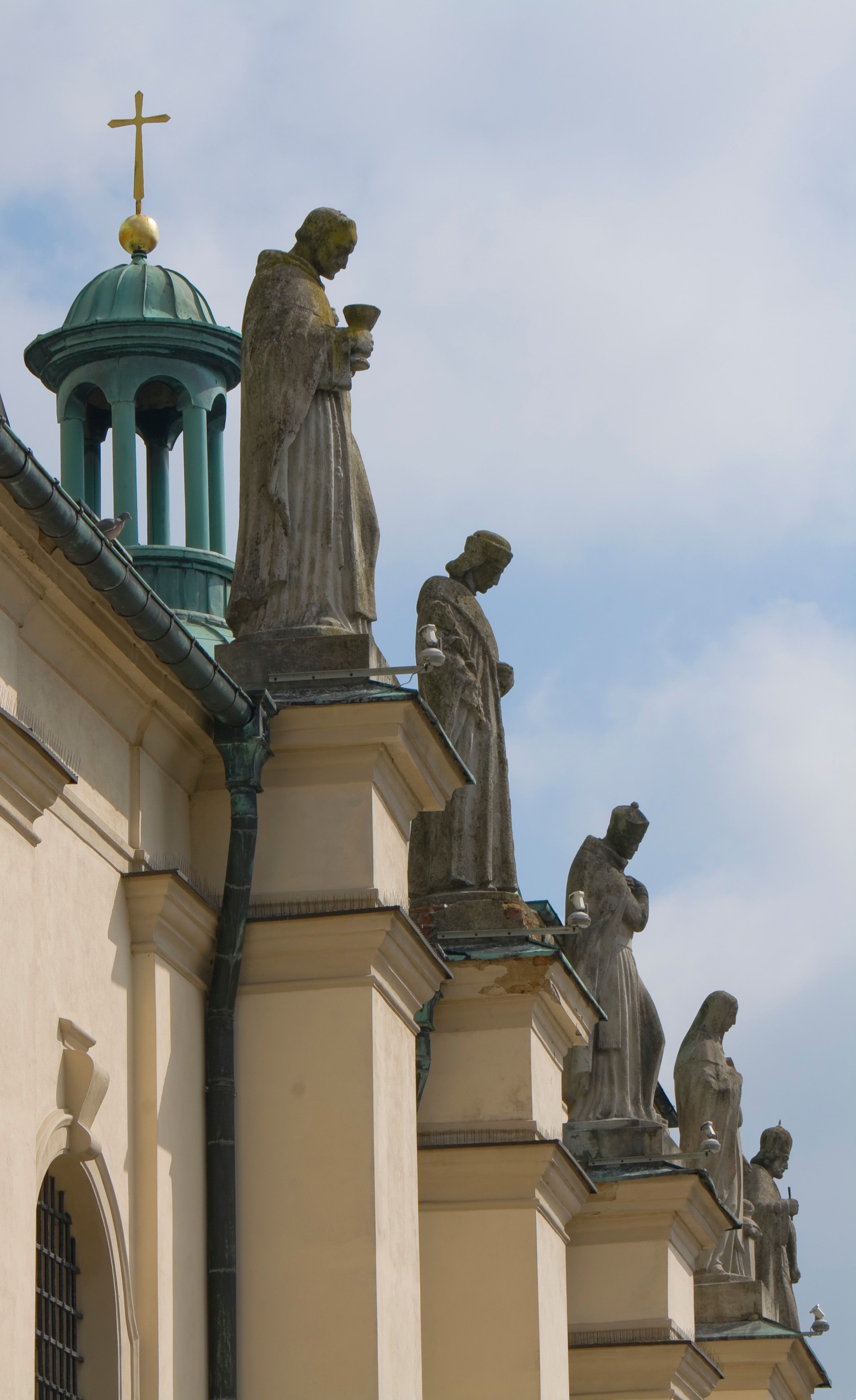 Gniezno Cathedral, Gniezno, Poland